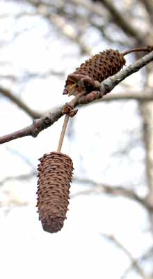 Gray Birch Betula populifolia seed catkins.